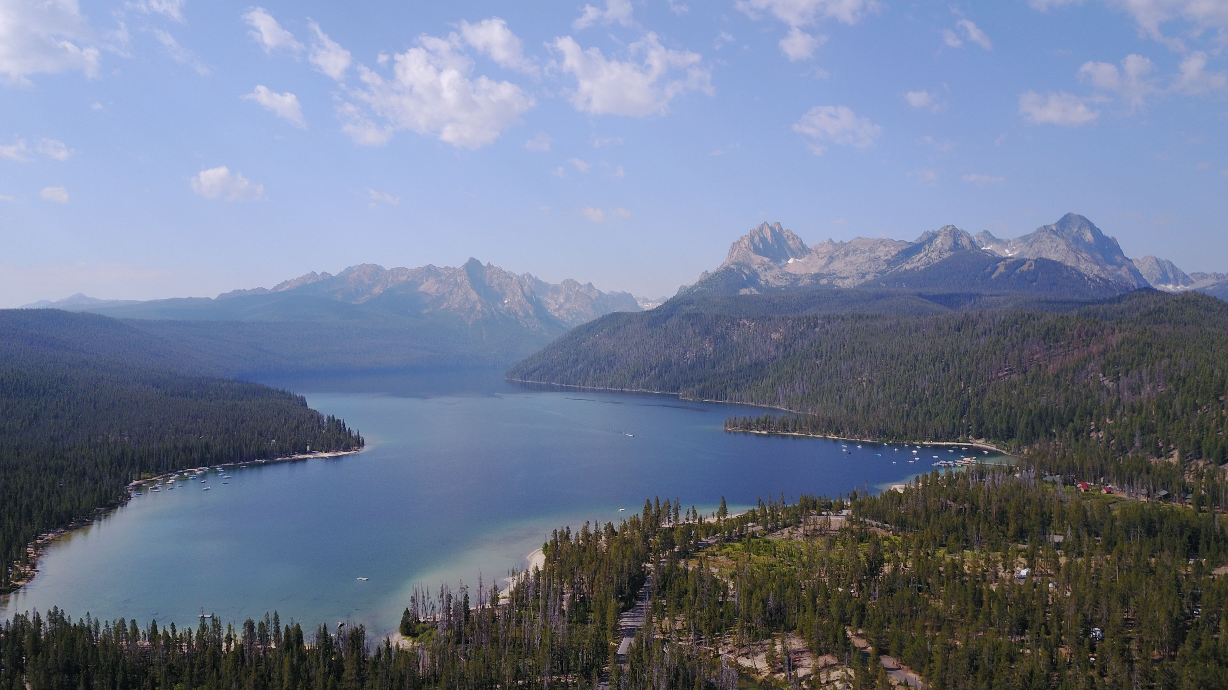 Redfish Lake taken from a drone.